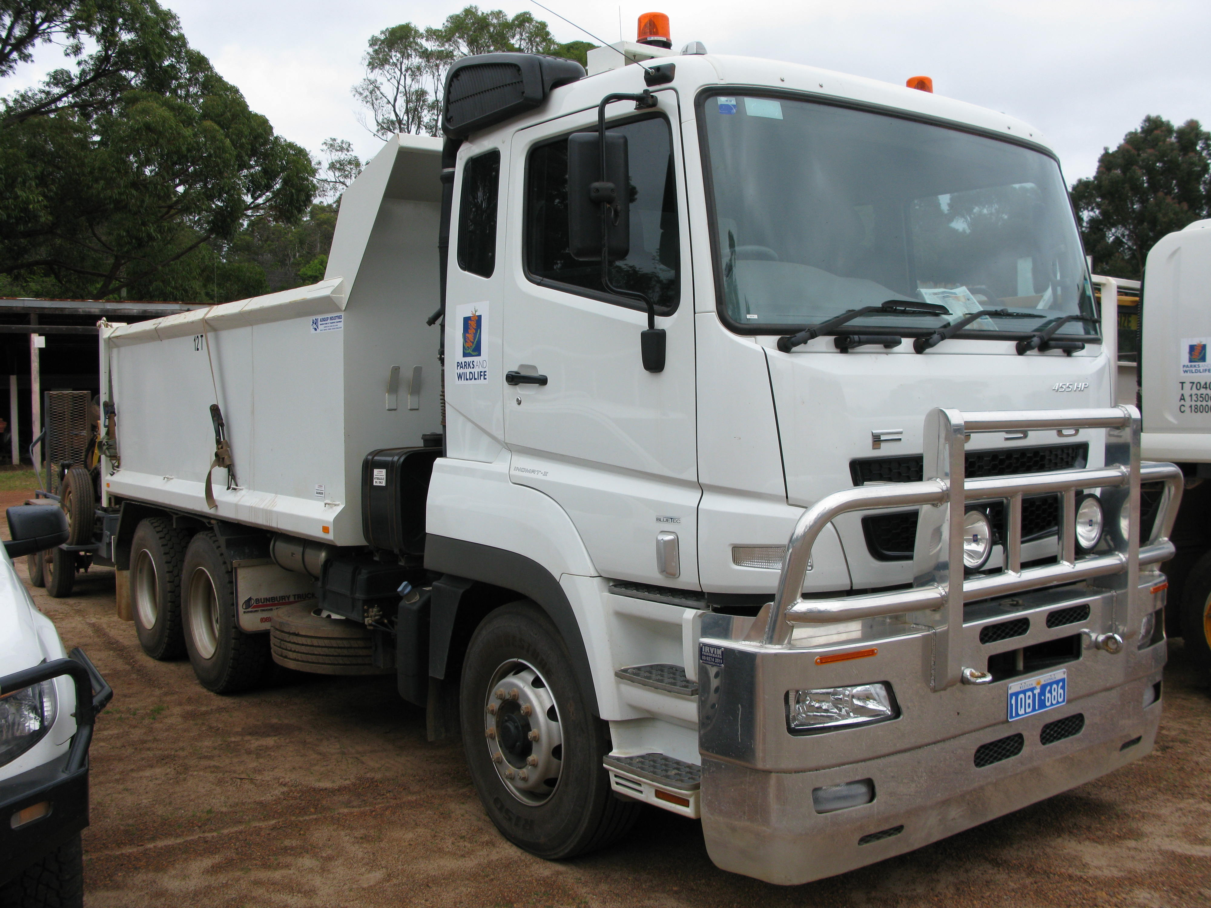 WA Parks and Wildlife Fuso 455HP 4WD Heavy Tipper at Dwellingup depot, October 2014